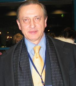 Aleksandr Georgievich Gorshkov is an ice dancer who competed internationally for the Soviet Union, president of the Federation of Figure Skating Federation of Russia.